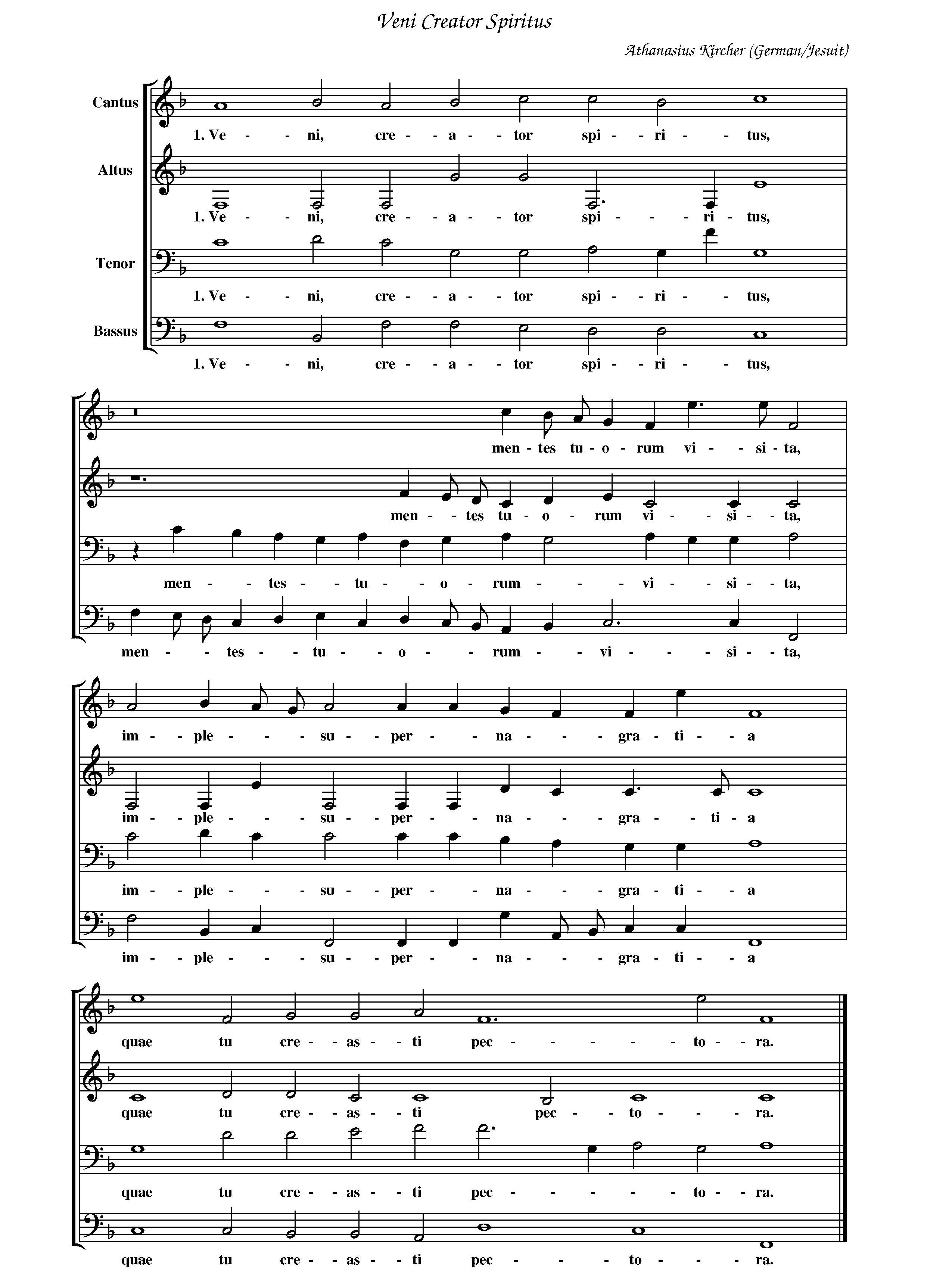 Sample musical output of a simulated version of Athanasius Kircher's Arca Musarithmica and Organum Mathematicum. The simulation was programmed by Jim Bumgardner using data from Kircher's books.